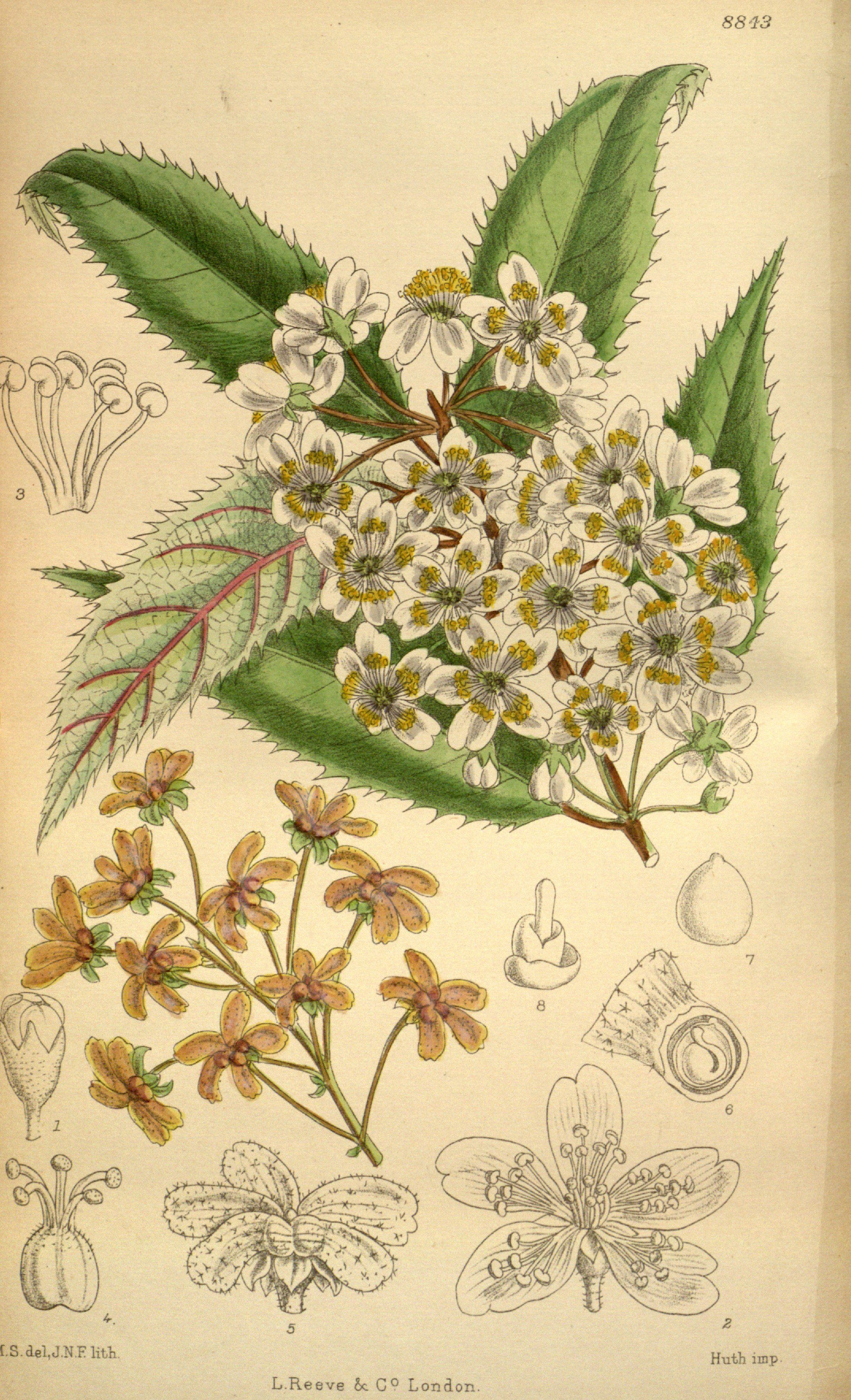 Hoheria populnea var. lanceolata (now known as Hoheria sexstylosa), Malvaceae